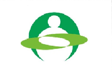 Flag of Kyotanba Kyoto